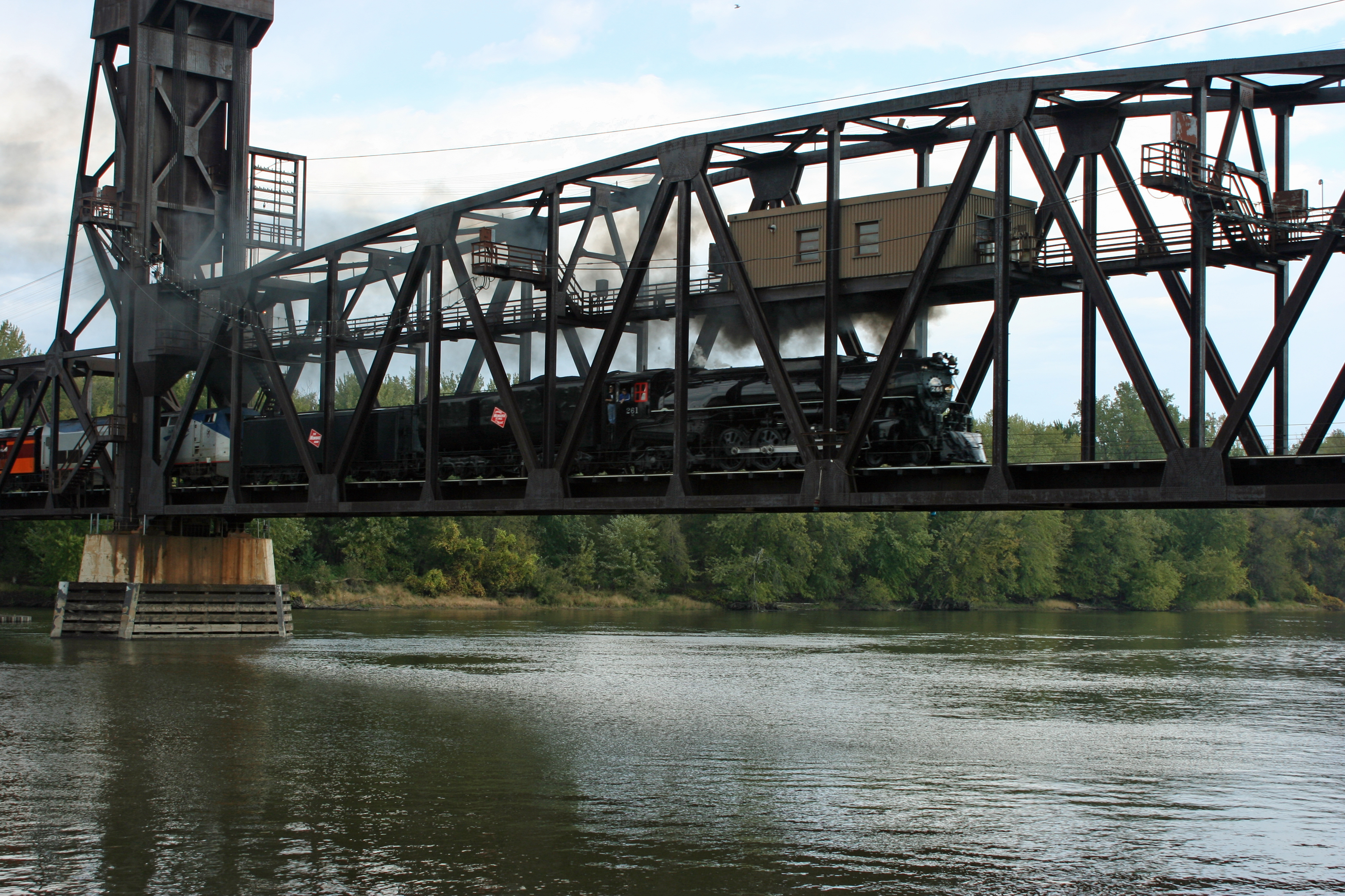 The Milwaukee Road steam locomotive #261 crossing the river at Hastings, Minnesota, on the vertical-lift bridge.